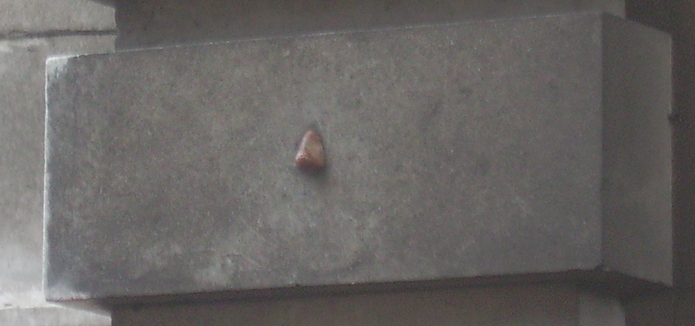 Detailed photograph of the nose protruding in the north arch of Admiralty Arch